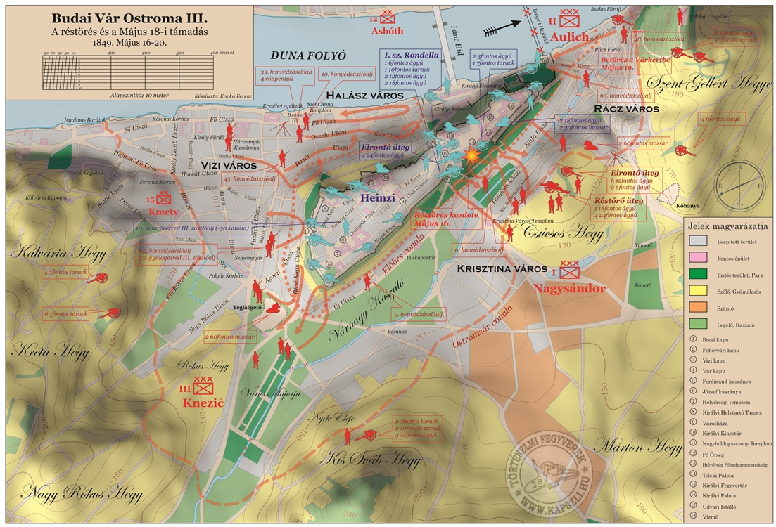 The situation in the Siege of Buda at 16 - 20 May 1849